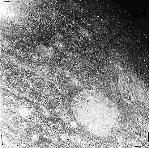 A satellite photo taken by Voyager 2 of an area called "Memphis Facula" on Ganymede.